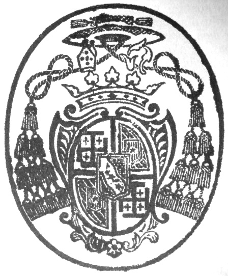 Seal_of_Mgr_Pigneau_de_Behaine_on_Letter_26_July_1779